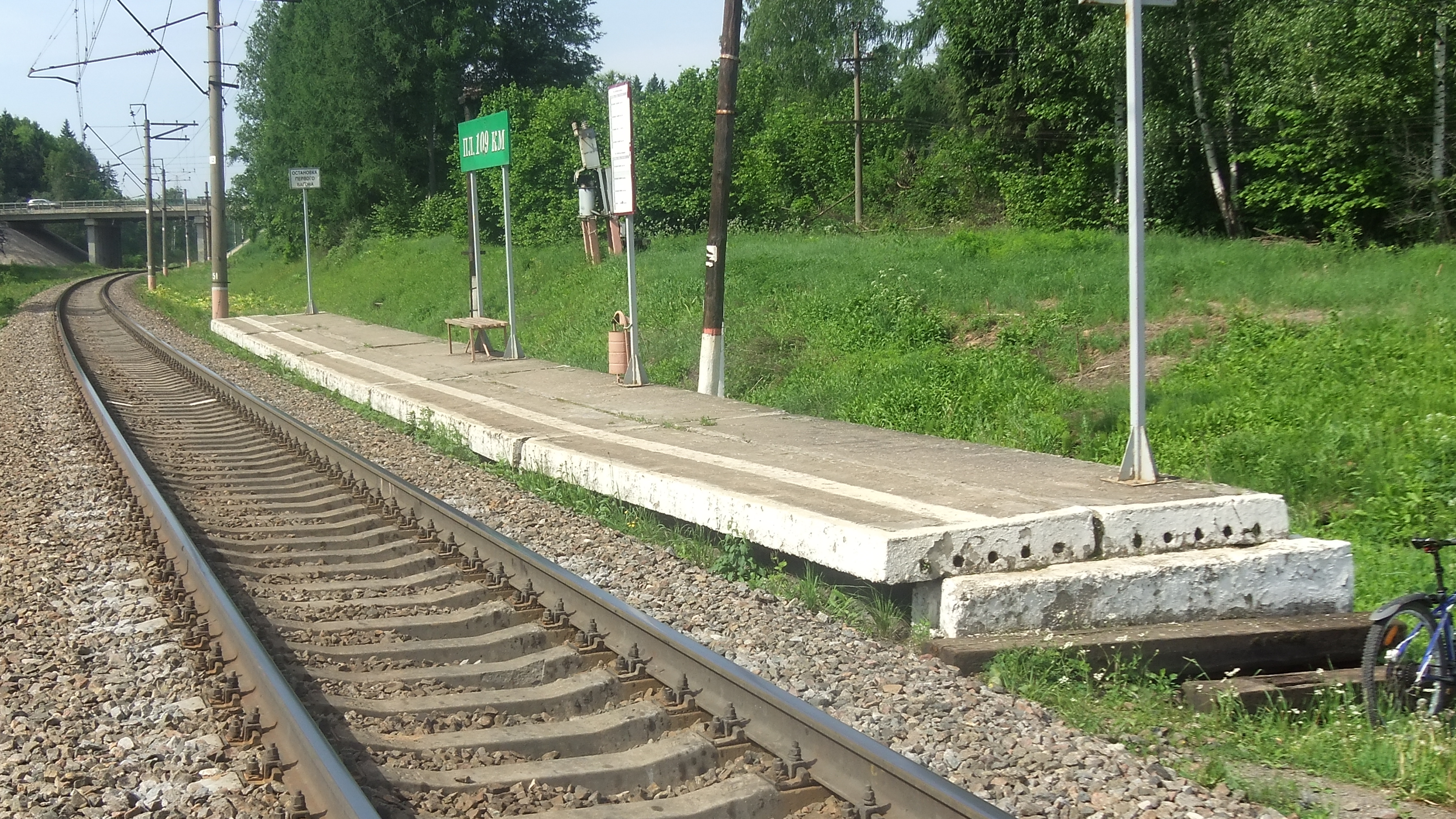 109 km BMO railway platform. Close view.